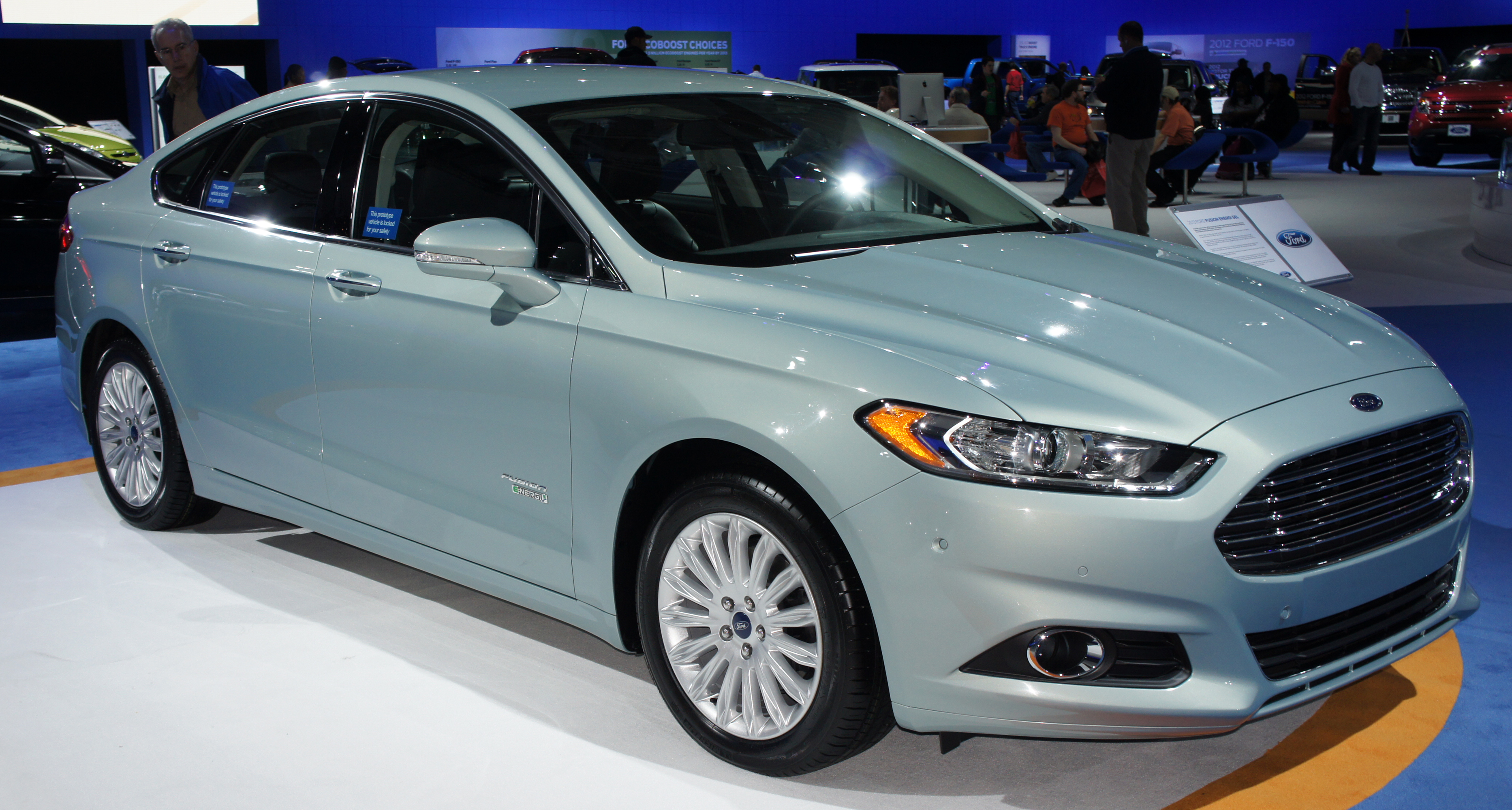 2013 Ford Fusion Energi SEL plug-in hybrid exhibited at the 2012 Washington Auto Show, District of Columbia.